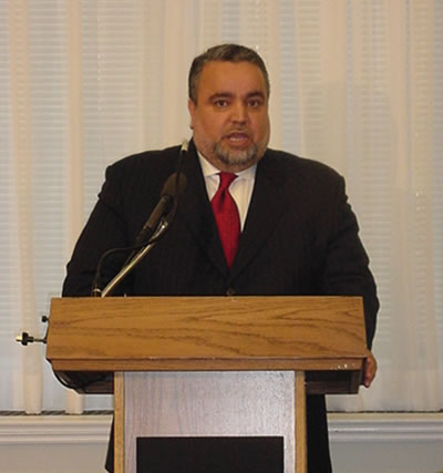 Speaker of the Iraqi Parliament Hachim al-Hasani.